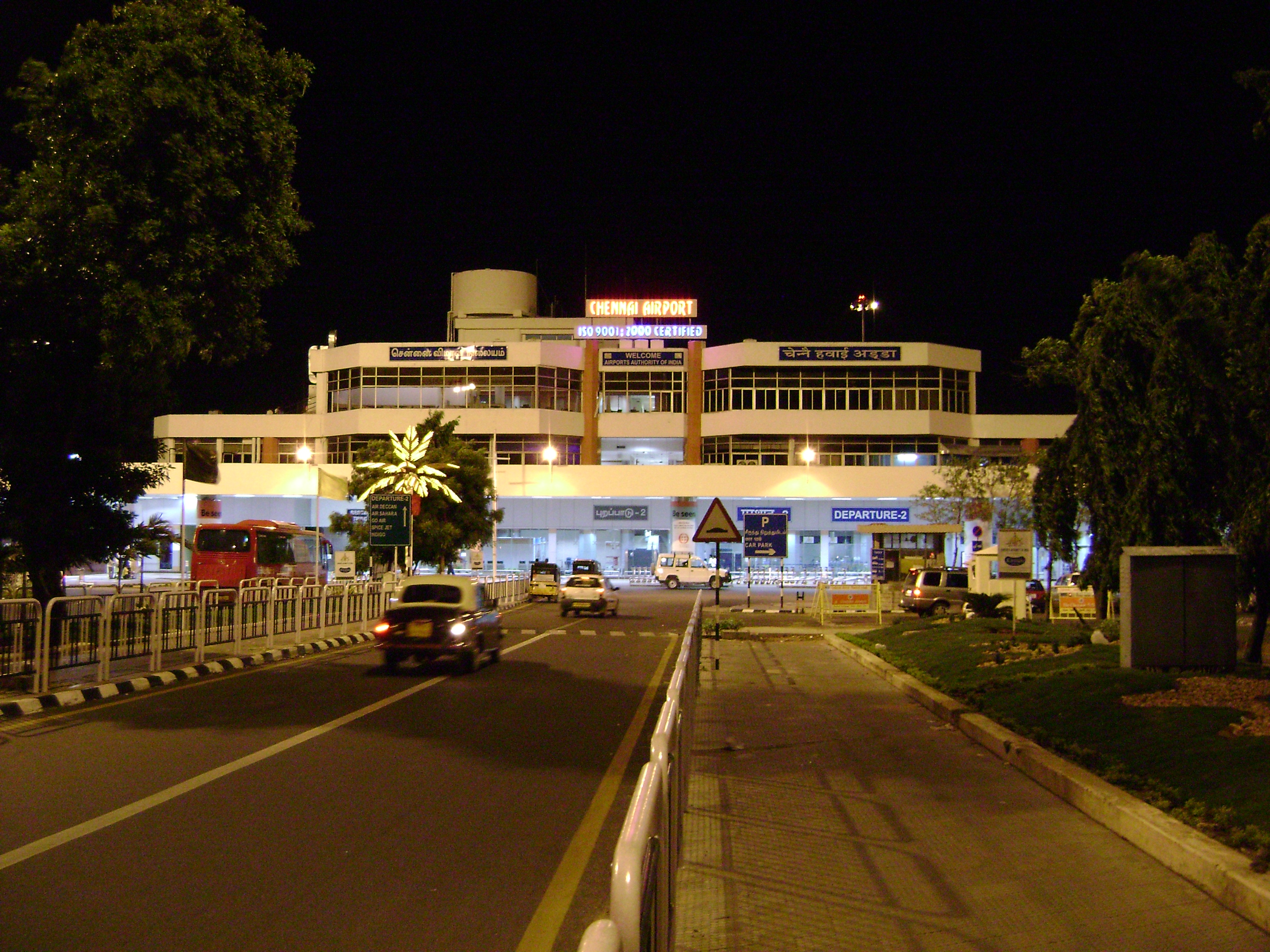 Chennai Airport